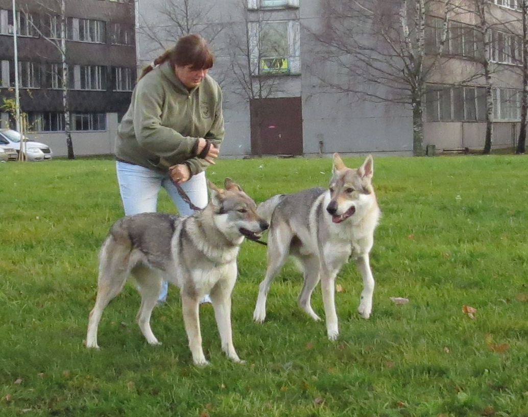 Riga, Baltic Winner -2013, 9-10 Nov